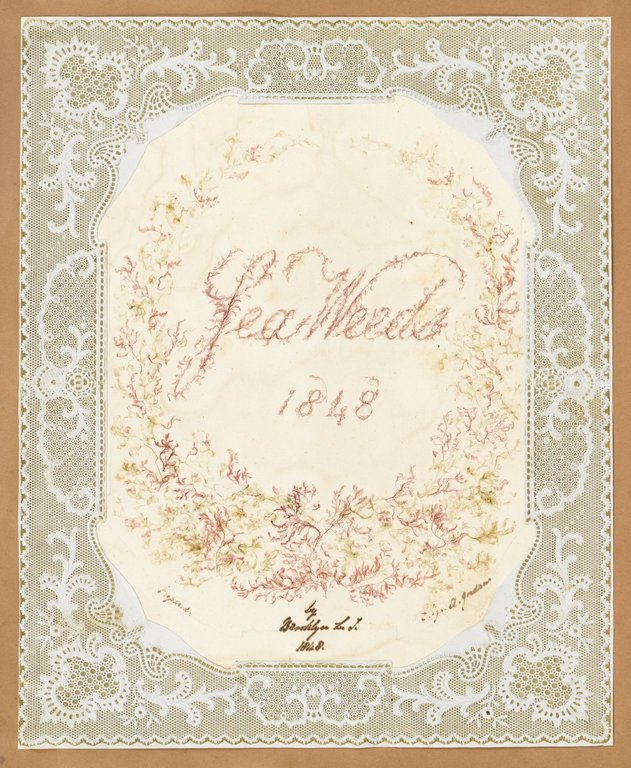 Algae or seaweed specimen, pasted on colored construction paper, framed by paper lace doilies. The algae have been arranged into designs and scenes. Design of algae spelling out: 'Sea Weeds 1848;' signed: 'prepared by Eliza A. Jordan, Brooklyn, L.I. 1848.